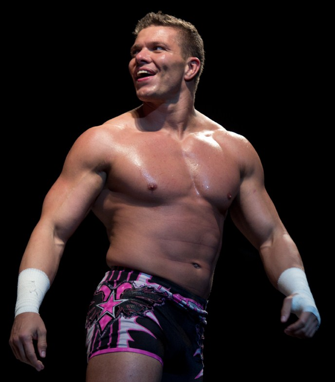 Tyson Kidd at a WWE SmackDown live event in Montgomery, Alabama on January 7, 2012. Cropped from original.